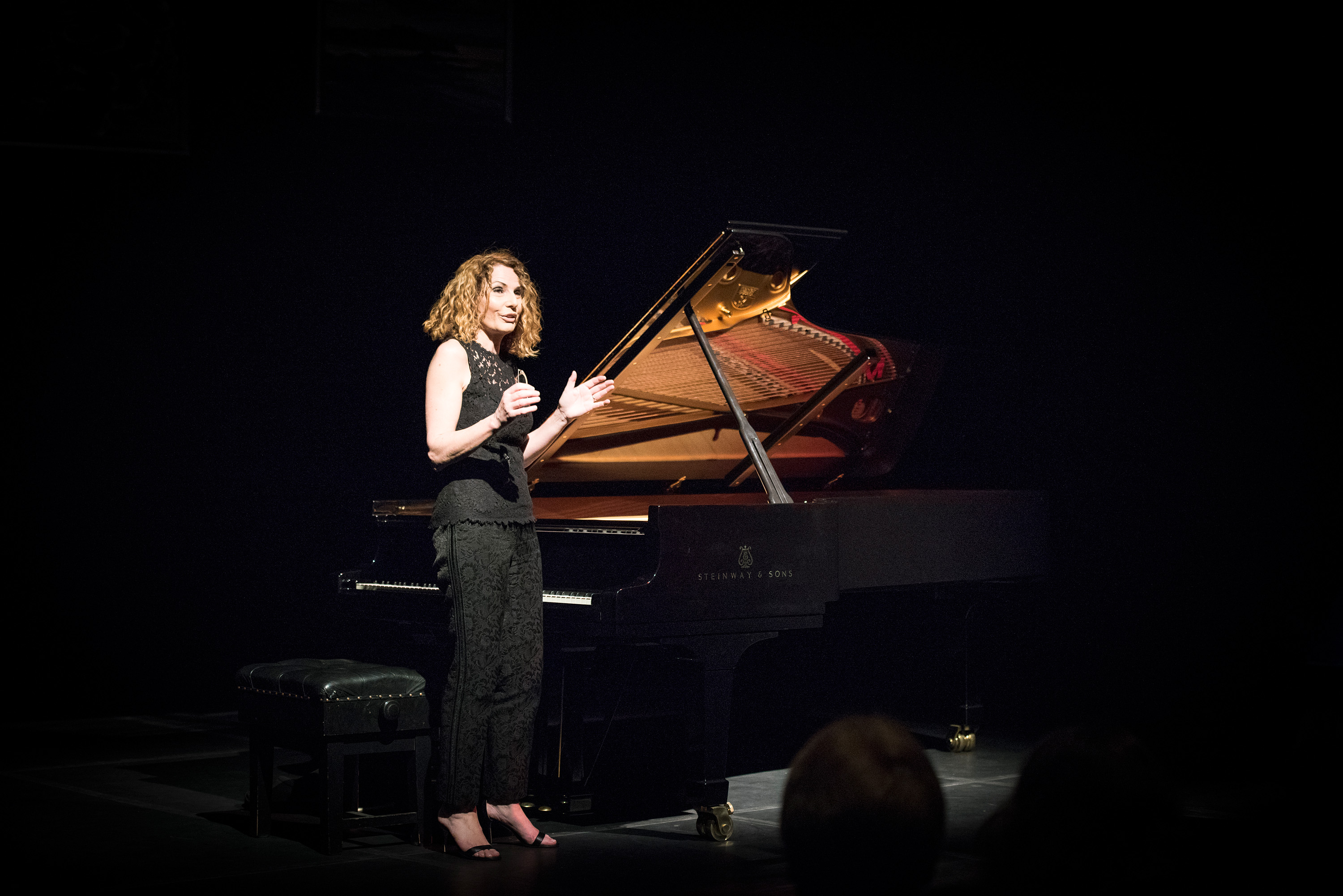 Credit: © Nic Delves-Broughton 29700 The Edge Royal Opening 11 May 2015. The Chancellor, Prince Edward officially opens the new Arts and Management building, The Edge. Also in attendance were Sir Christopher Frayling; Margaret Heffernan; Sir Francis Richards in a discussion panel hosted by Professor Veronica Hope Hailey. The Chancellor tours the building and views various arts, music and dance activities. Joanna McGregor gives a piano recital to the audience. Client: Paula McGrane - Corps Comms